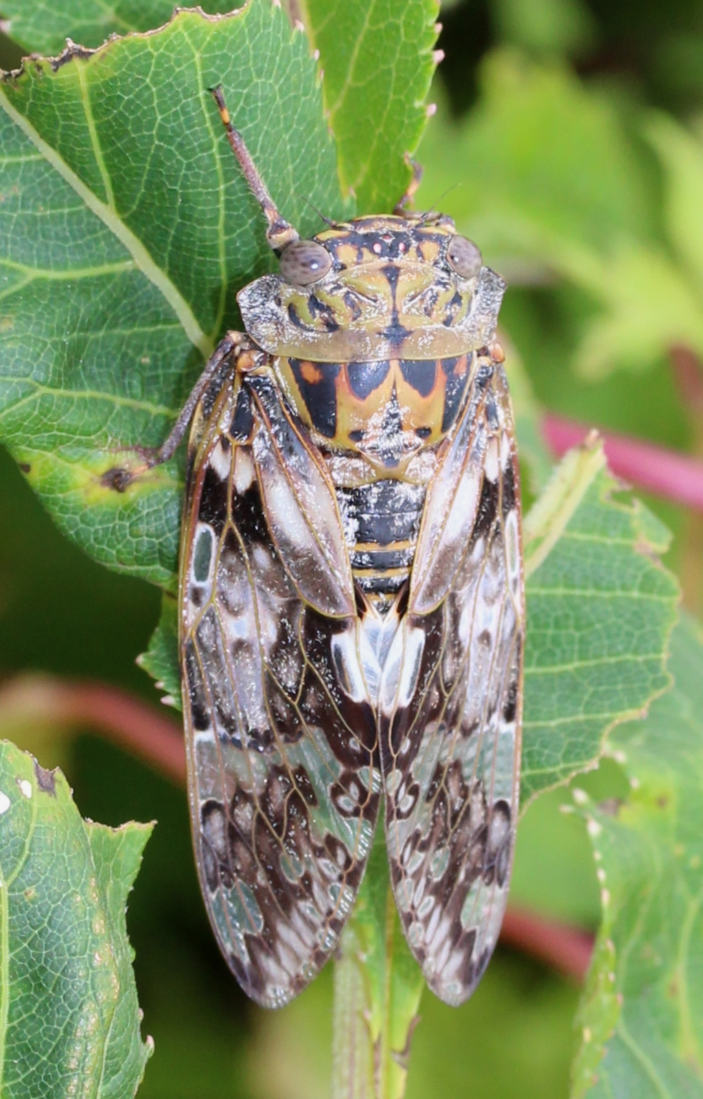 Platypleura kaempferi in Mount Ibuki